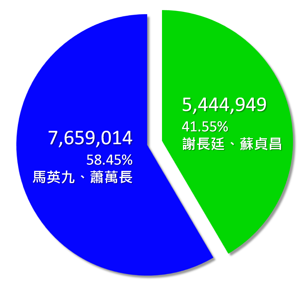 Pie chart of the result of the presidential election in the Republic of China, 2008.